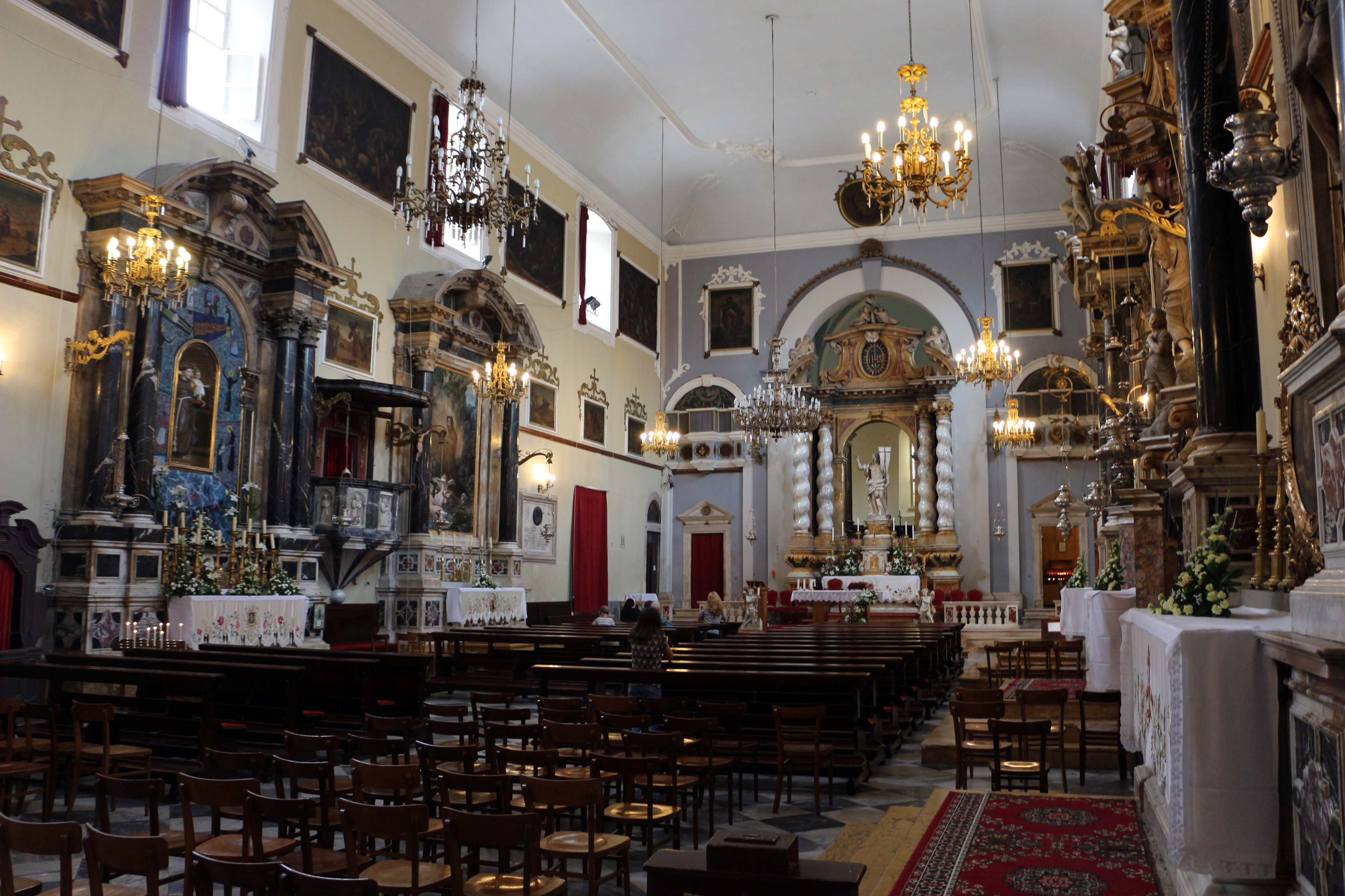 Franciscan Church and Monastery in Dubrovnik